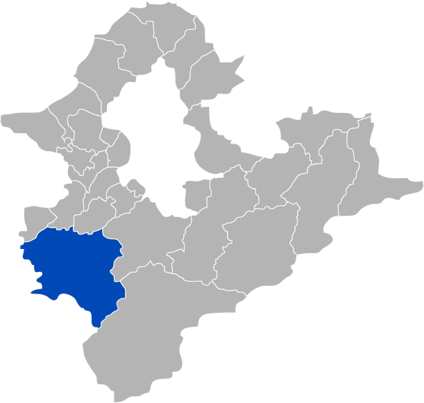 Sanxia Township, Taipei County, Taiwan, R.O.C.